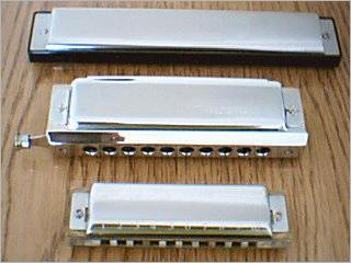 Three main kinds of Harmonica including diatonic, chromatic and tremolo.